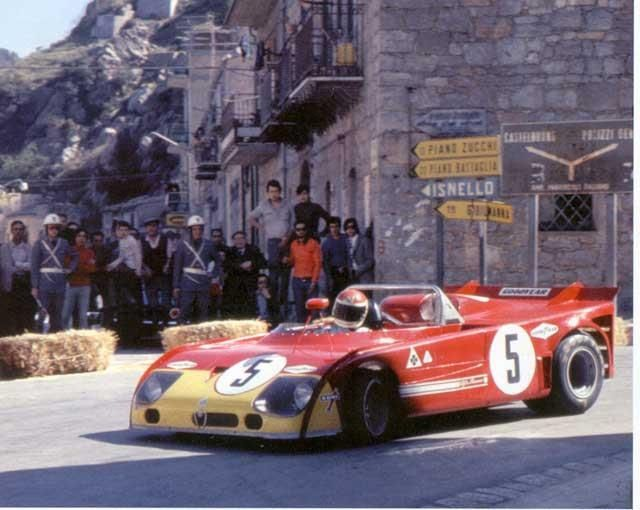 Nanni Galli and Helmut Marko were set up as drivers of this #5 Alfa Romeo T33/3 at Targa Florio (here at Collesano) on 21 May 1972. They ended 2nd place.[1]